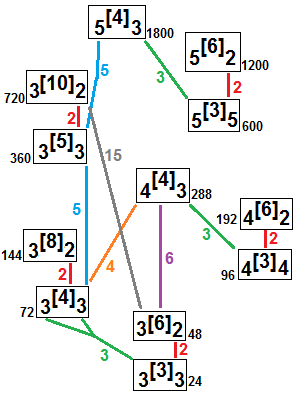 Shephard groups, finite, rank 2